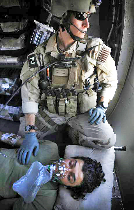 Staff Sergeant William Lawson keeps an eye on the countryside as he cares for a wounded Afghan National Army soldier from the Hemland Province, Afghanistan. Staff Sergeant Lawson will provide care to the injured soldier until they can safely deliver him to a hospital. He is a pararescuemen with the 129th Expeditionary Rescue Squadron.